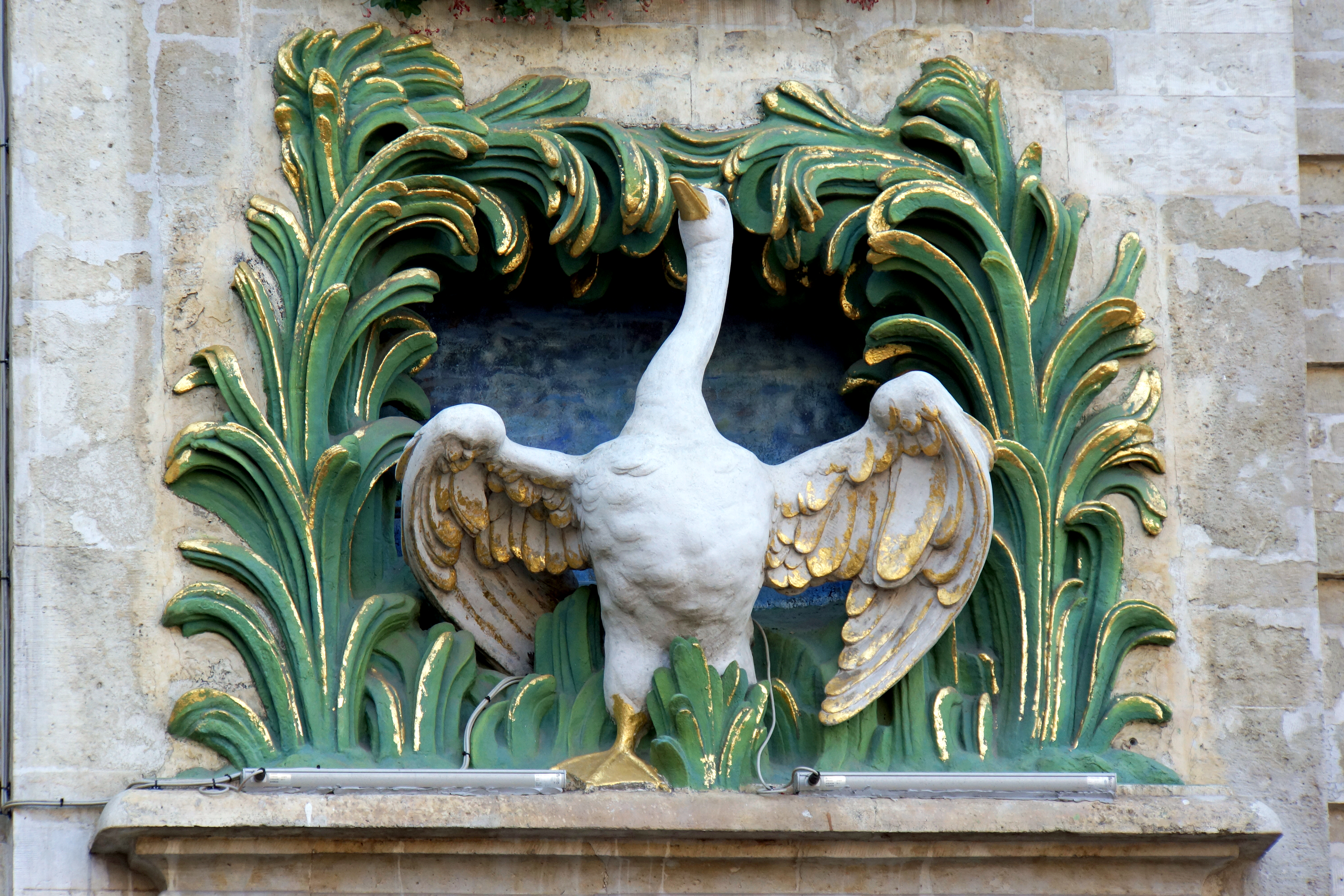 PLEASE, NO invitations or self promotions, THEY WILL BE DELETED. My photos are FREE to use, just give me credit and it would be nice if you let me know, thanks. This is on one of the guild houses. The SWAN (Now a renowned restaurant "La maison du Cygne (house of the swan). Karl Marx and Friedrich Engels stayed here in 1847 during meetings of the the German labourers union.